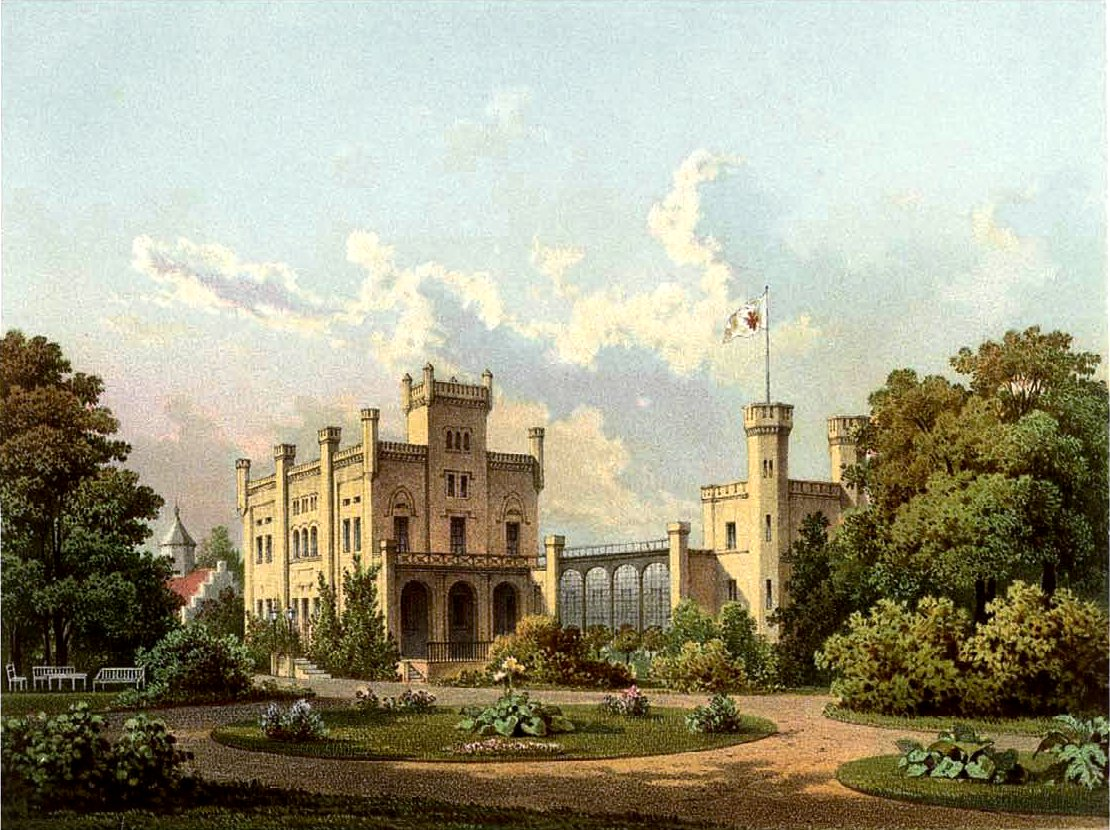 Manor in Starzyński Dwór